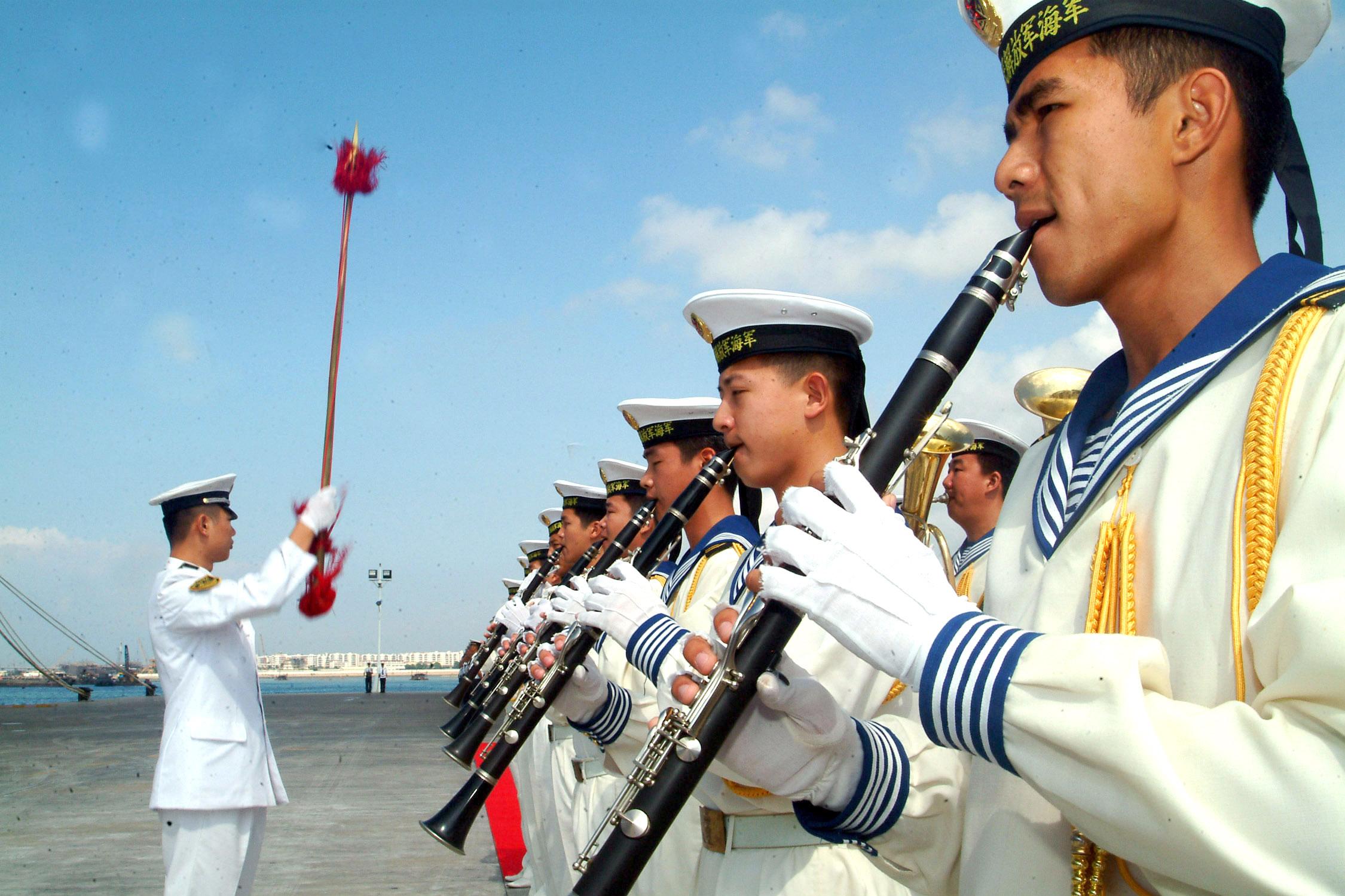 Zhanjiang, People’s Republic of China (Nov. 18, 2006) - The People Liberation Army (Navy)(PLA (N)) military band plays music as a farewell for the amphibious assault ship USS Juneau (LPD 10), which completed its port visit after three meaningful days. The ship will now conduct search-and-rescue exercise (SAREX) with the PLA (N) ship Zhanjiang (DDG 165). U.S. Navy photo by Mass Communication Specialist 2nd Class Michael Gomez (RELEASED)